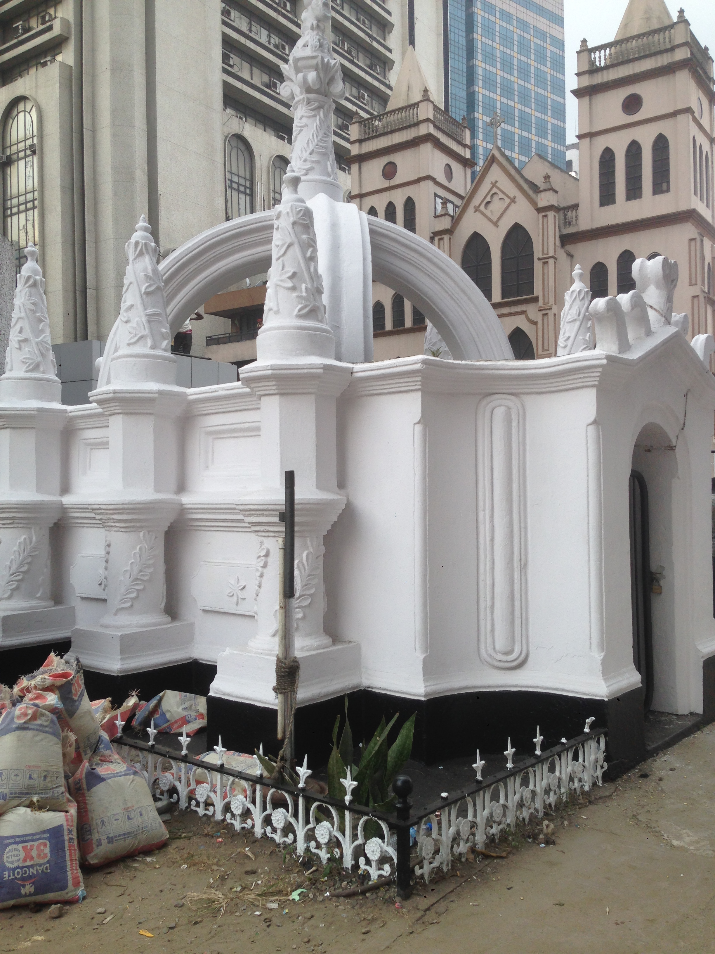 Another view of the tomb